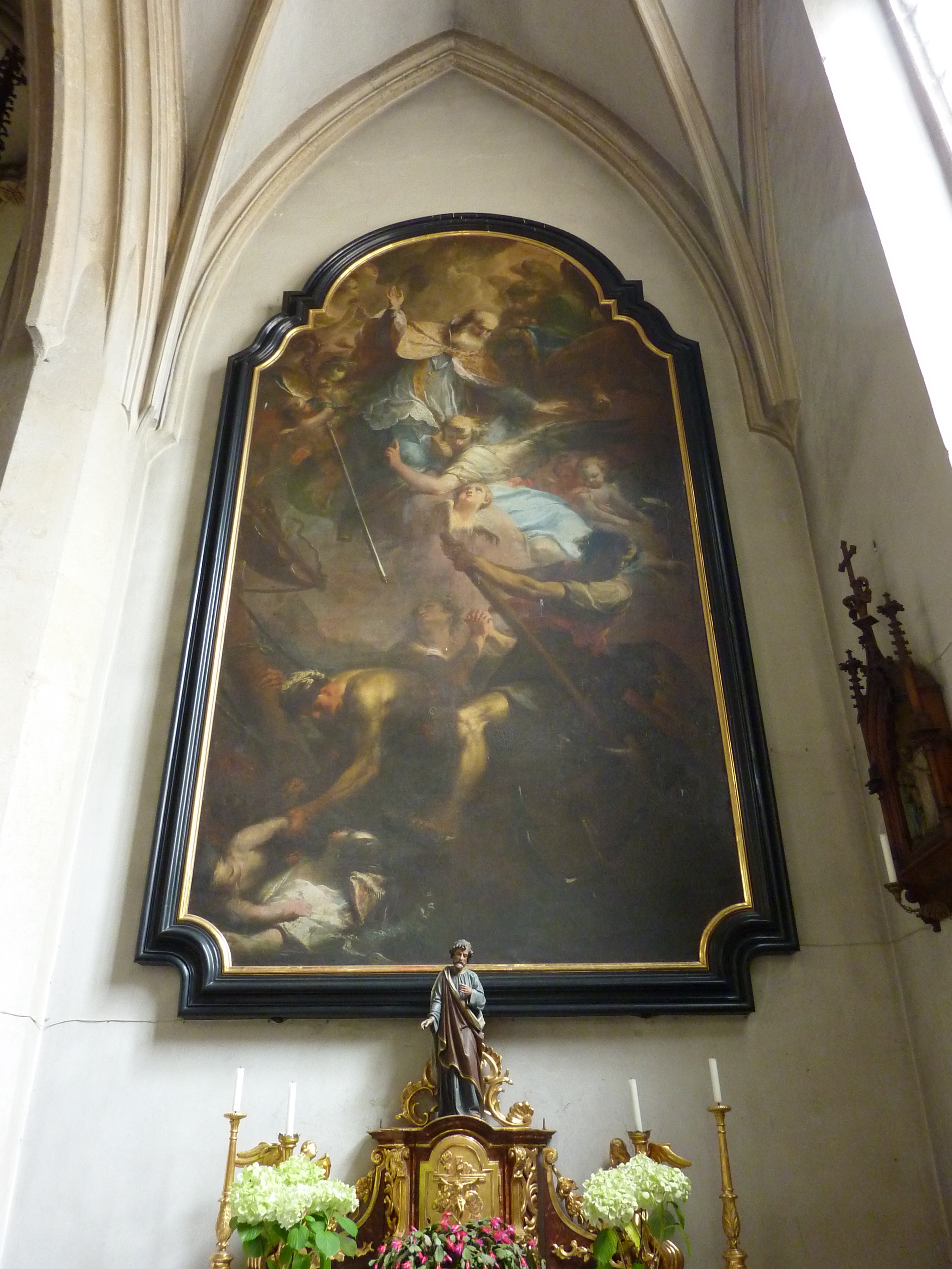 Painting of Saint Nicholas in the church in Stein (Krems) in Lower Austria